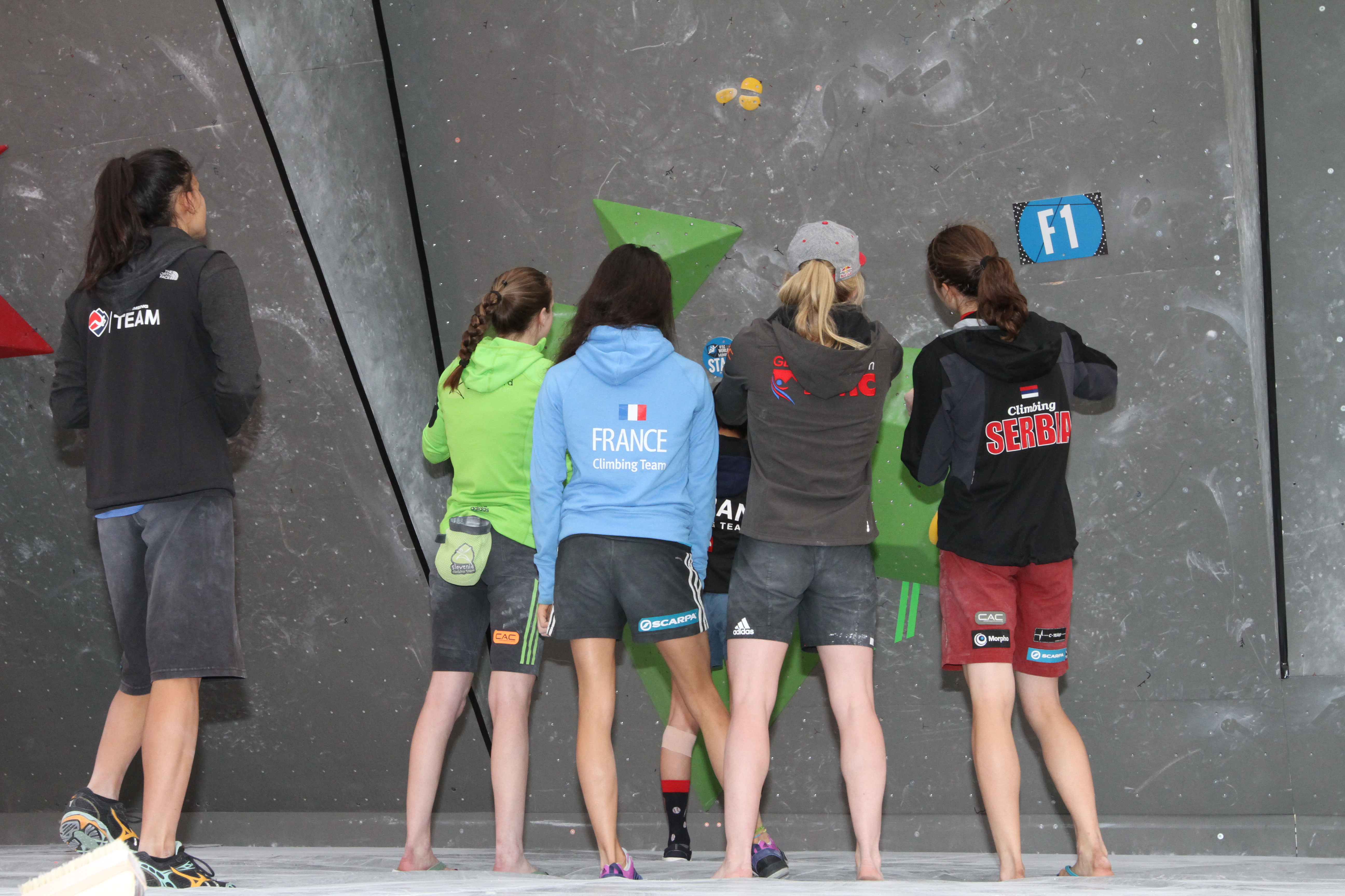 IFSC Boulder Worldcup, Munich 2015. Climbers inspecting the routes